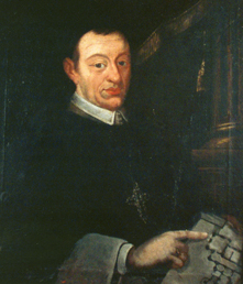 Amtsporträt des Ebracher Abtes Wilhelm I. Sölner, 1714-1741